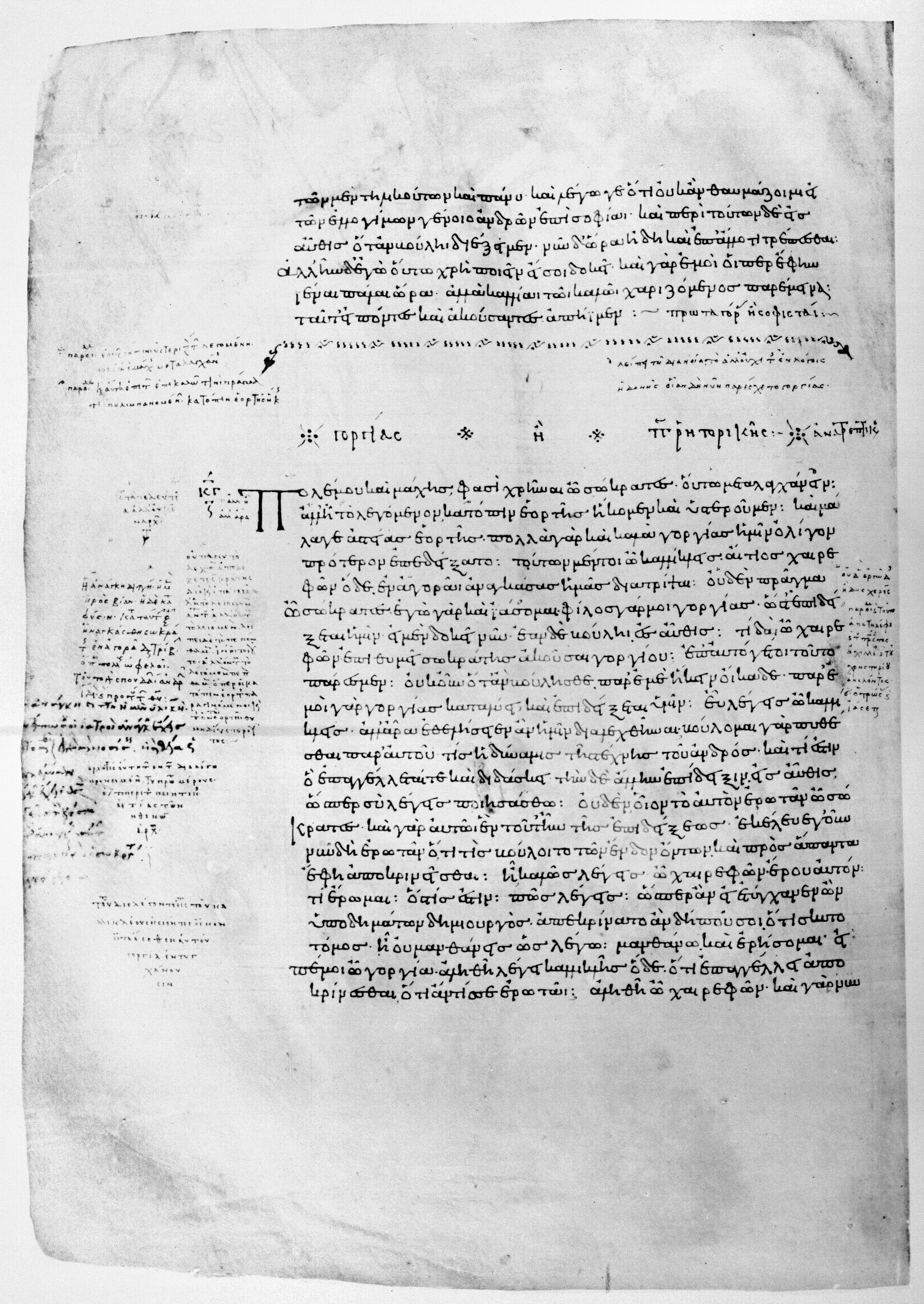 Page of the Codex Oxoniensis Clarkianus 39 (Clarke Plato). Dialogue Gorgias.